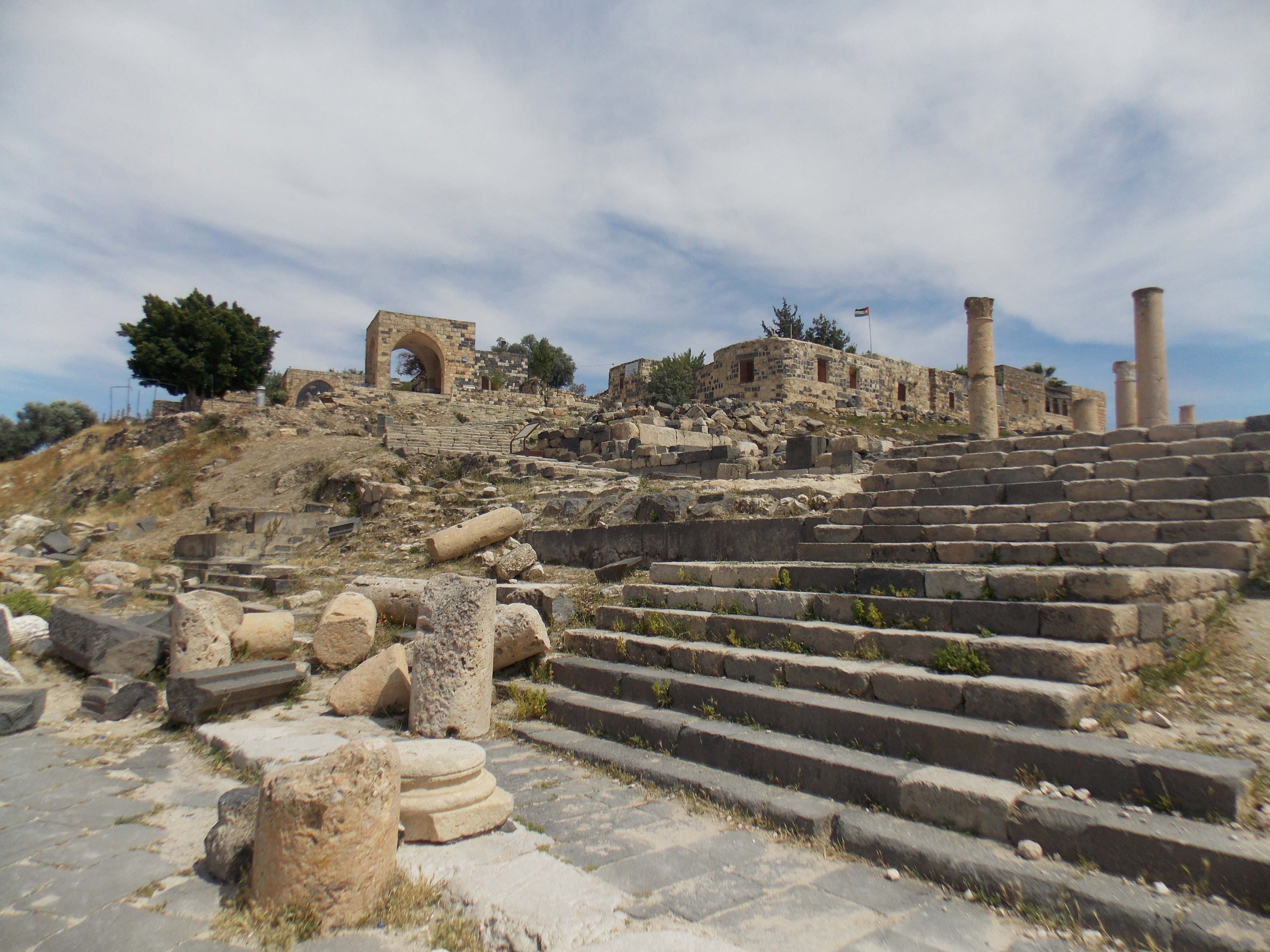 Umm Qais, jordan